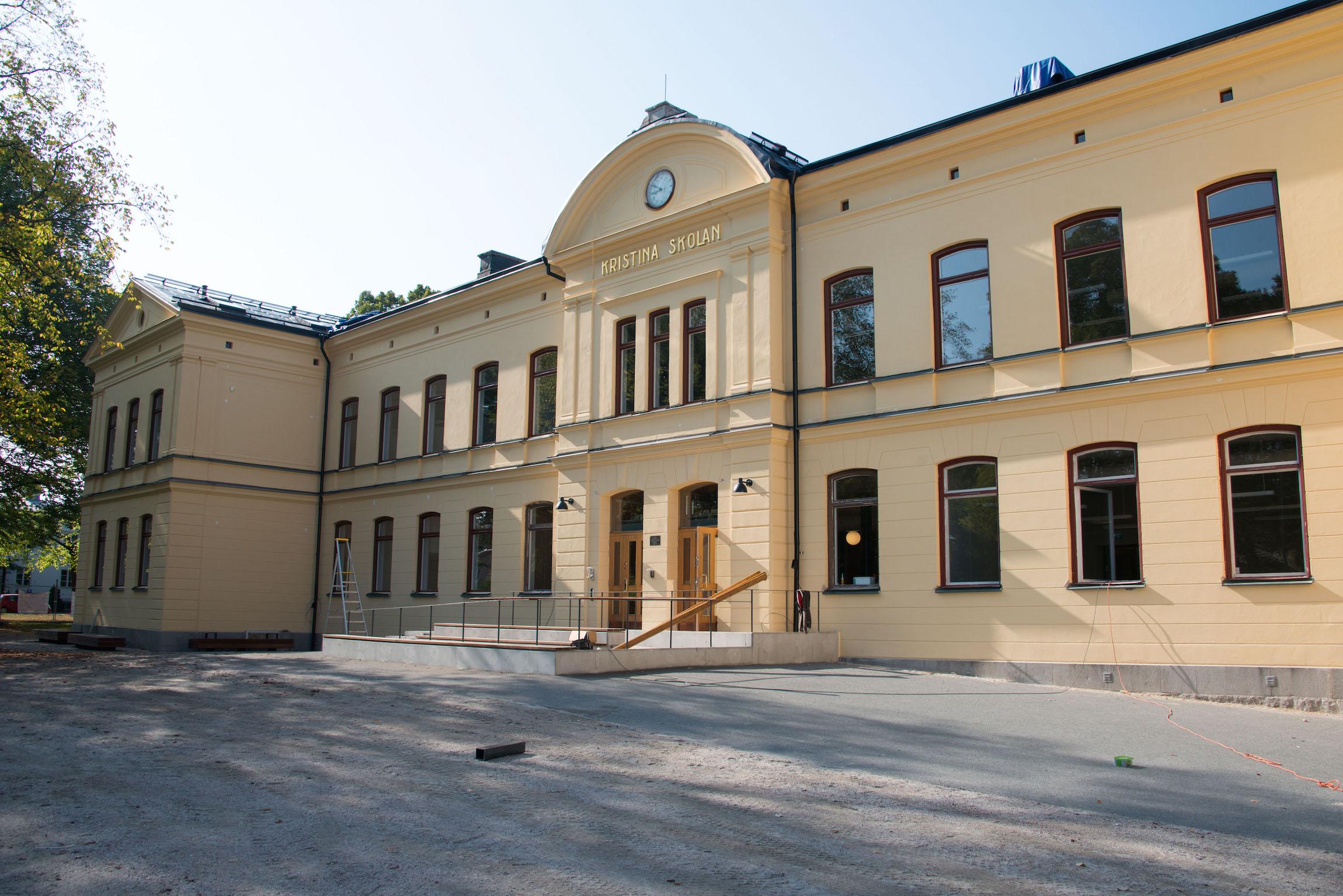 Kungsgårds nyrenoverade lokaler, gamla Kristinaskolan.